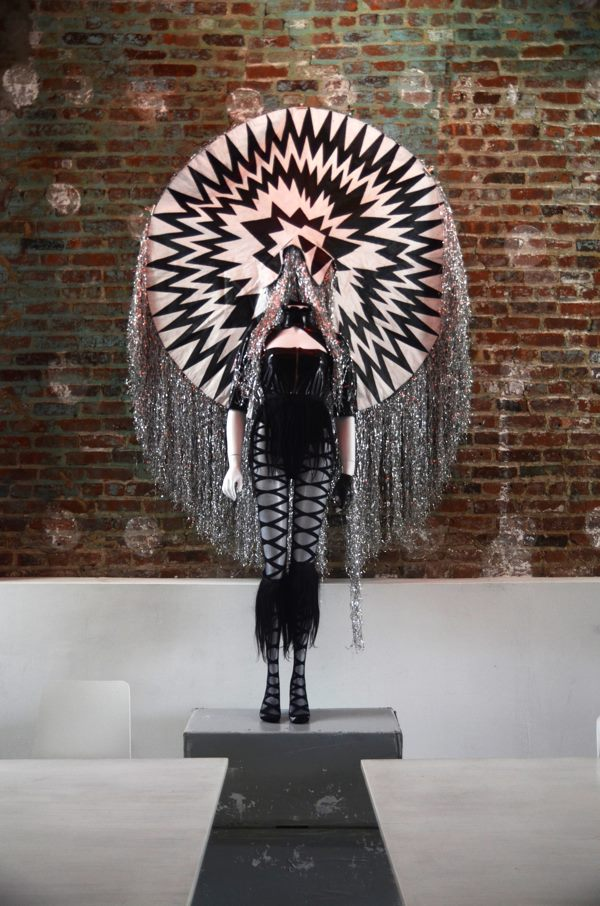 Example of work by costume designer and artist Christian Joy